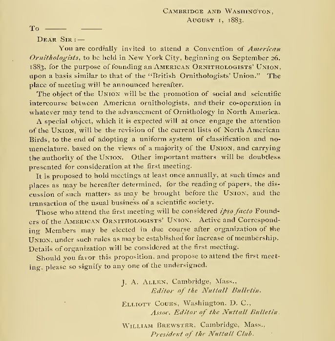 Letter sent to invite ornithologists to a convention to create the American Ornithologists' Union, 1 August 1883